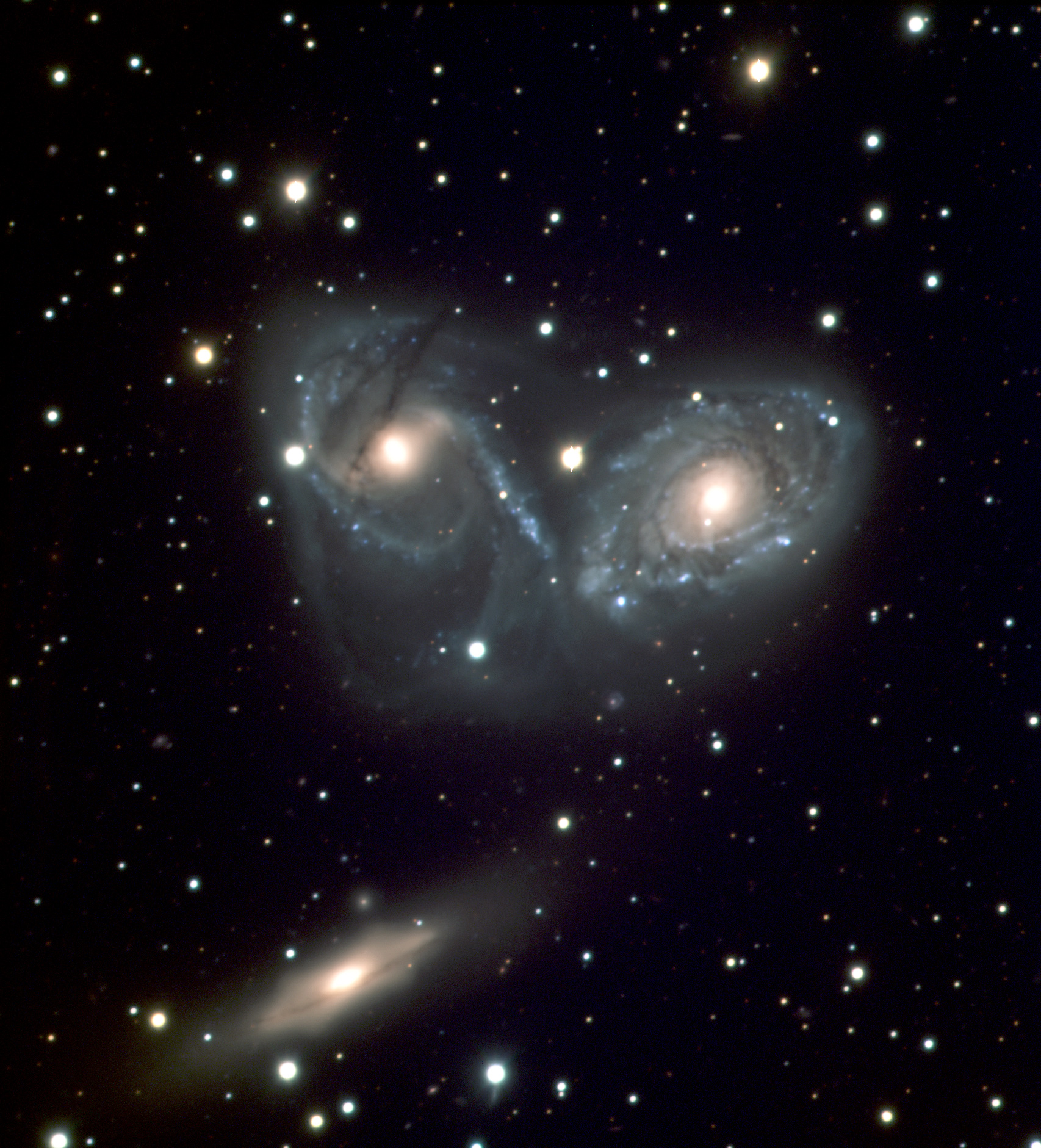 Colour-composite image showing the triplet of galaxies NGC 6769, 6770 and NGC 6771, as observed with the VIMOS instrument on Melipal, one of the four 8.2-m Unit Telescopes of ESO's Very Large Telescope. The images were obtained on the morning of April 1, 2004 during twilight in three different wavebands, each of which is here being represented by a different colour: U (around 380 nm; associated to the Blue channel) ; B ( 425 nm ; Green channel) and V (550 nm ; Red channel). The total exposure time in the U, B and V bands is, respectively, 20, 6 and 12 minutes. The mean seeing was around 0.9 arcsec. The field shown measures 6.1 x 6.8 square arcmin. North is up and East is left. ID: phot-12-04 Credit: ESO